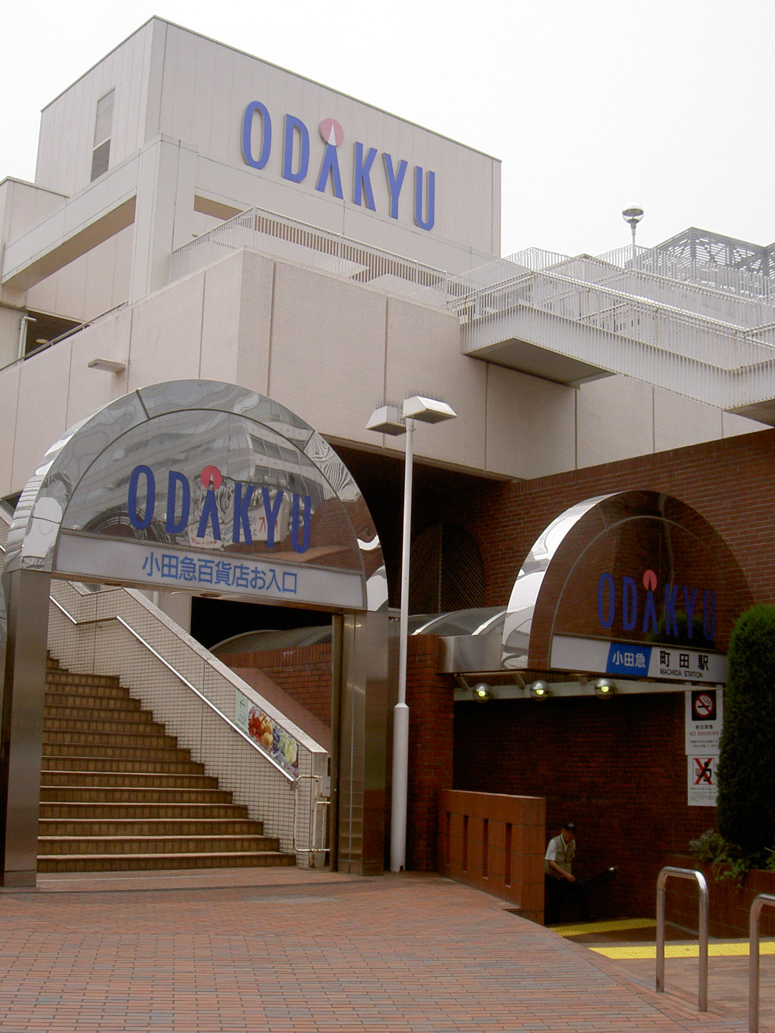 Machida station of Odakyu Odawara line